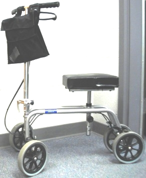 picture of orthopedic knee scooter